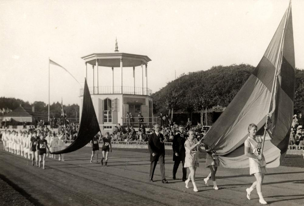 Opening of 1926 Women's World Games in Göteborg, Sweden